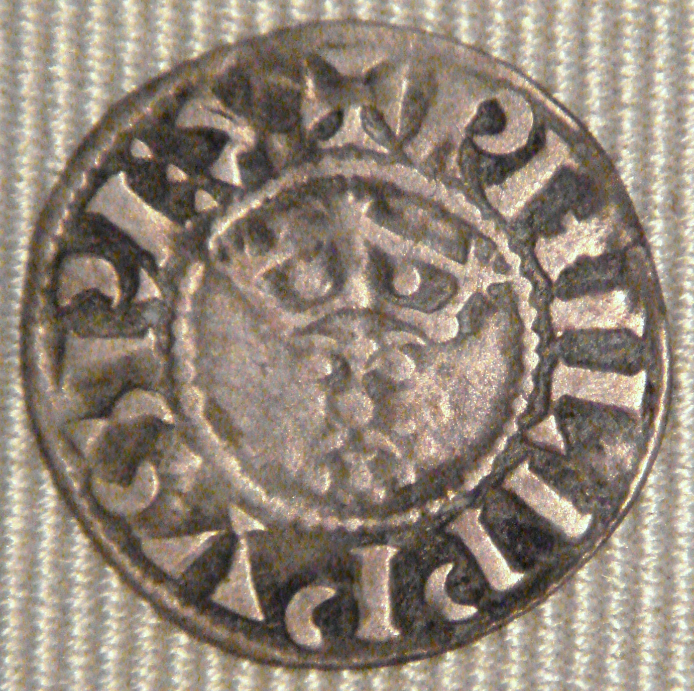 Philippe_II_denier_Bourges_1180_1223